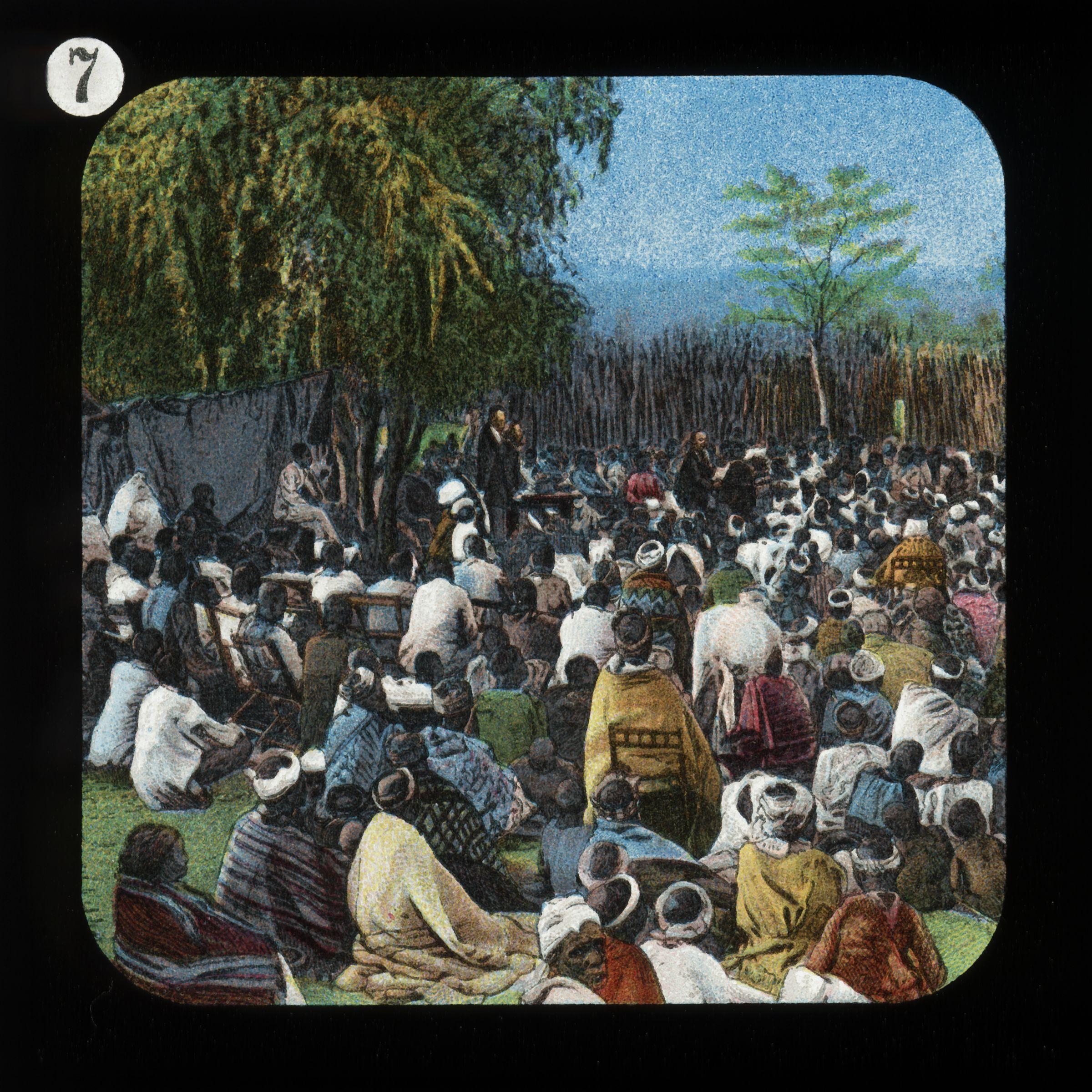 Bechuana Congregation, The London Missionary Society. Pseudonymous, circa 1900. All images in this batch have been evaluated manually for evidence that the artist probably died before 1939, or that the work is anonymous or pseudonymous and was probably published before 1923. Pseudonymous, circa 1900. This image (or other media file) is in the public domain because its copyright has expired and its author is anonymous. This applies to the European Union and those countries with a copyright term of 70 years after the work was made available to the public and the author never disclosed their identity. Important: Always mention where the image comes from, as far as possible, and make sure the author never claimed authorship. Note: In Germany and possibly other countries, certain anonymous works published before July 1, 1995 are copyrighted until 70 years after the death of the author. See Übergangsrecht. Please use this template only if the author never claimed authorship or their authorship never became public in any other way. If the work is anonymous or pseudonymous (e.g., published only under a corporate or organization's name), use this template for images published more than 70 years ago. For a work made available to the public in the United Kingdom, please use Template:PD-UK-unknown instead.